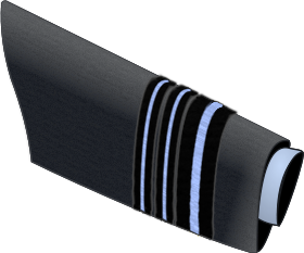 RAF Air Marshal